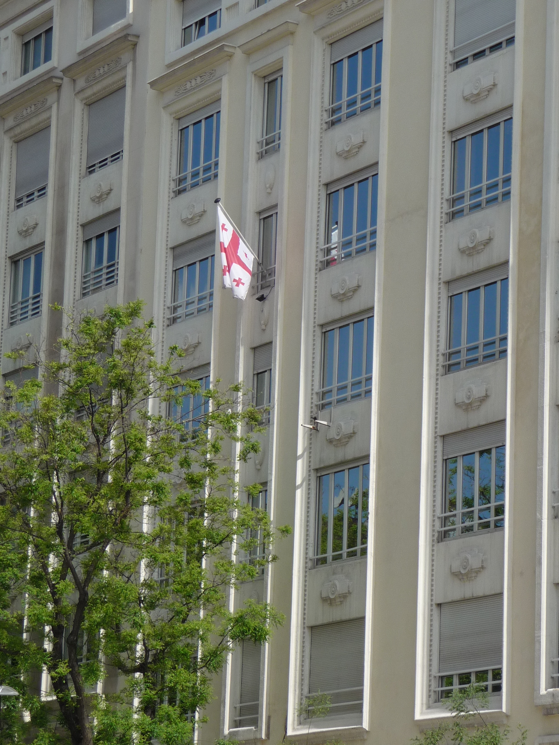 Embassy of Georgia in Madrid